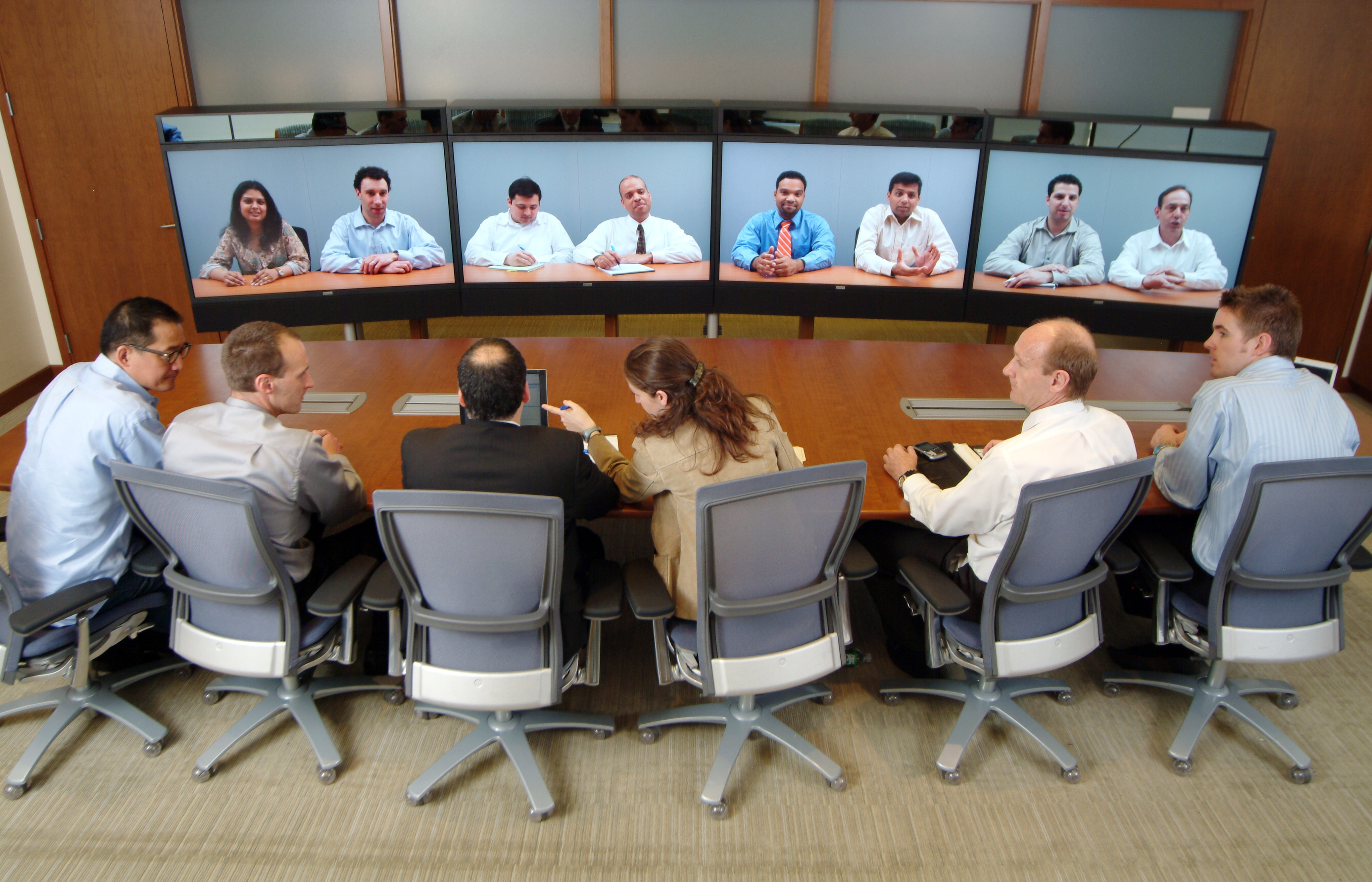 Teliris VirtuaLive Telepresence Modular System